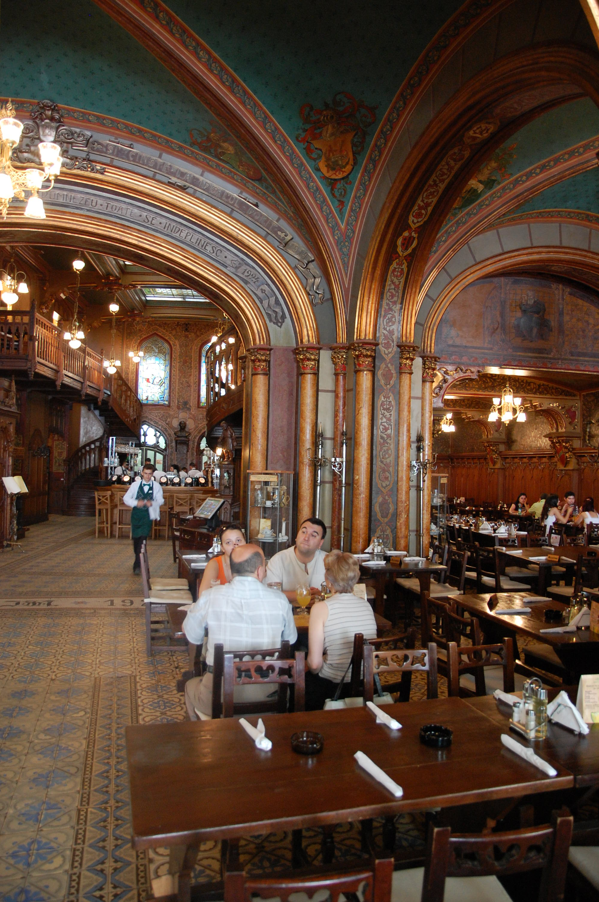 A view of the Art Nouveau interior of the famous Caru' cu Bere (restaurant) — in Bucharest, Romania. The name of the restaurant in English would be "Beer Cart".